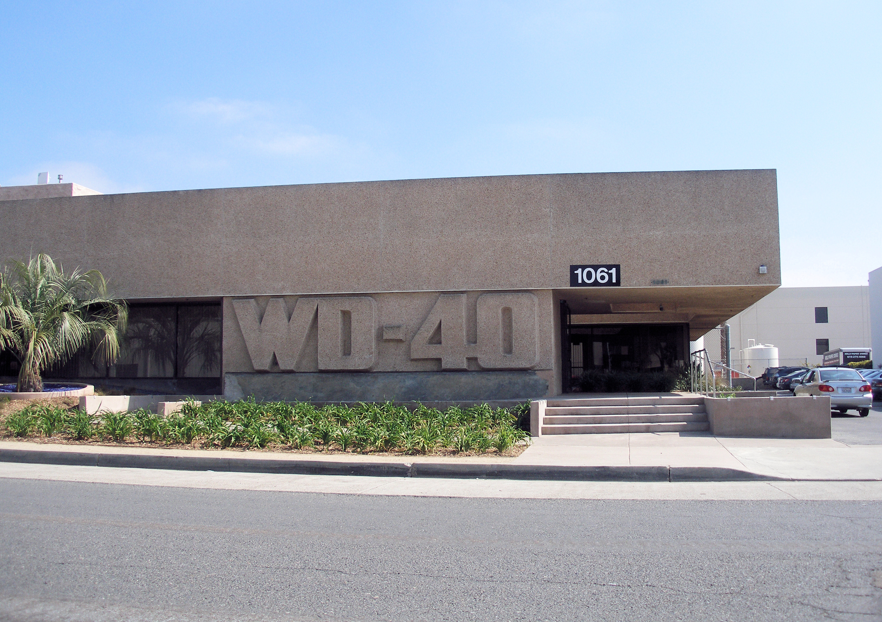 WD-40 headquarters in San Diego, California. Photographed by user Coolcaesar on February 18, 2008.